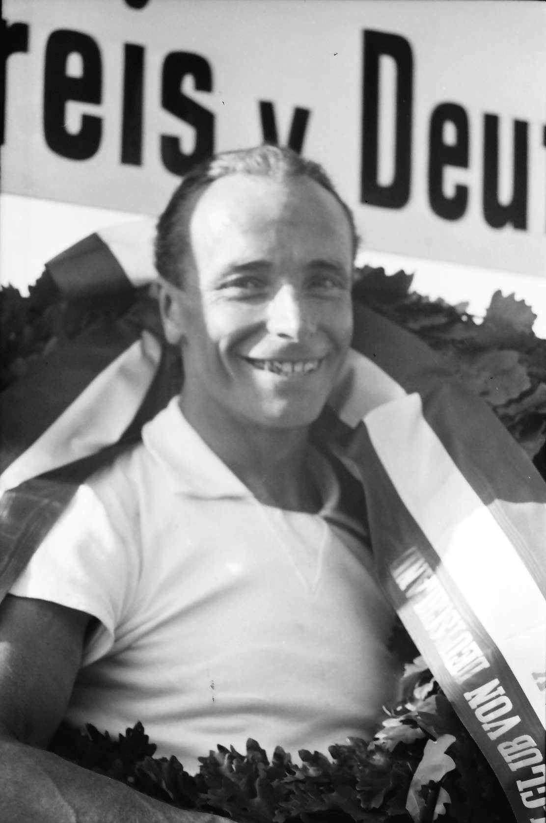 East German racing driver Edgar Barth, on the podium and wearing the victor's laurels after winning the Formula 2 class in the 1957 German Grand Prix, at the Nürburgring, West Germany.